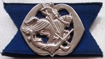 Beret badge Regiment Boreel's Hussars (swallowtail)